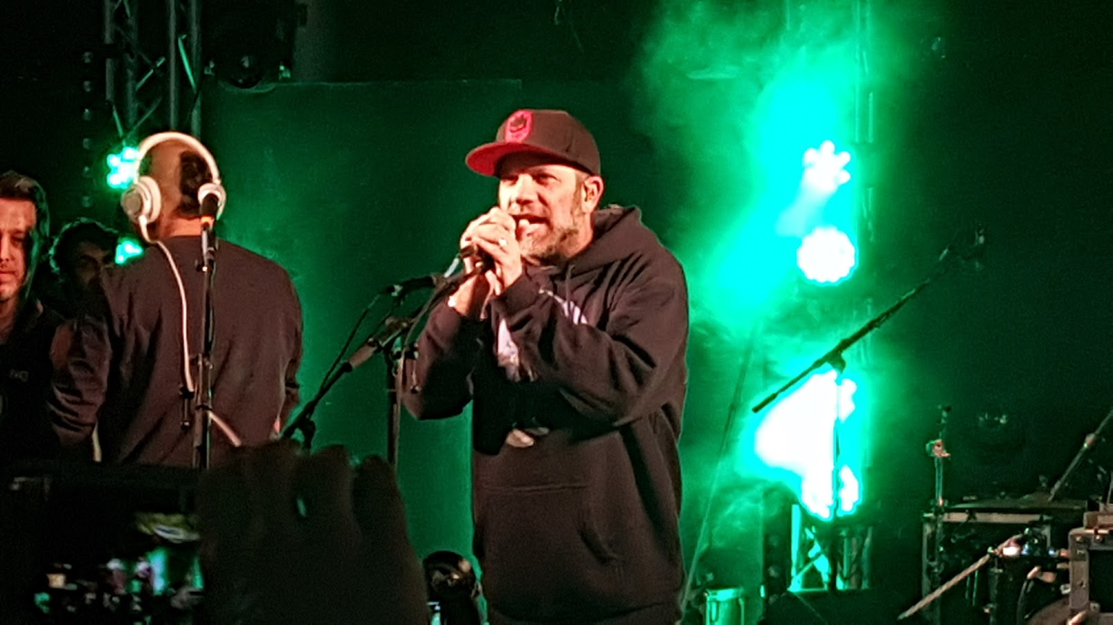 Shaanan Streett, 2017-02-04